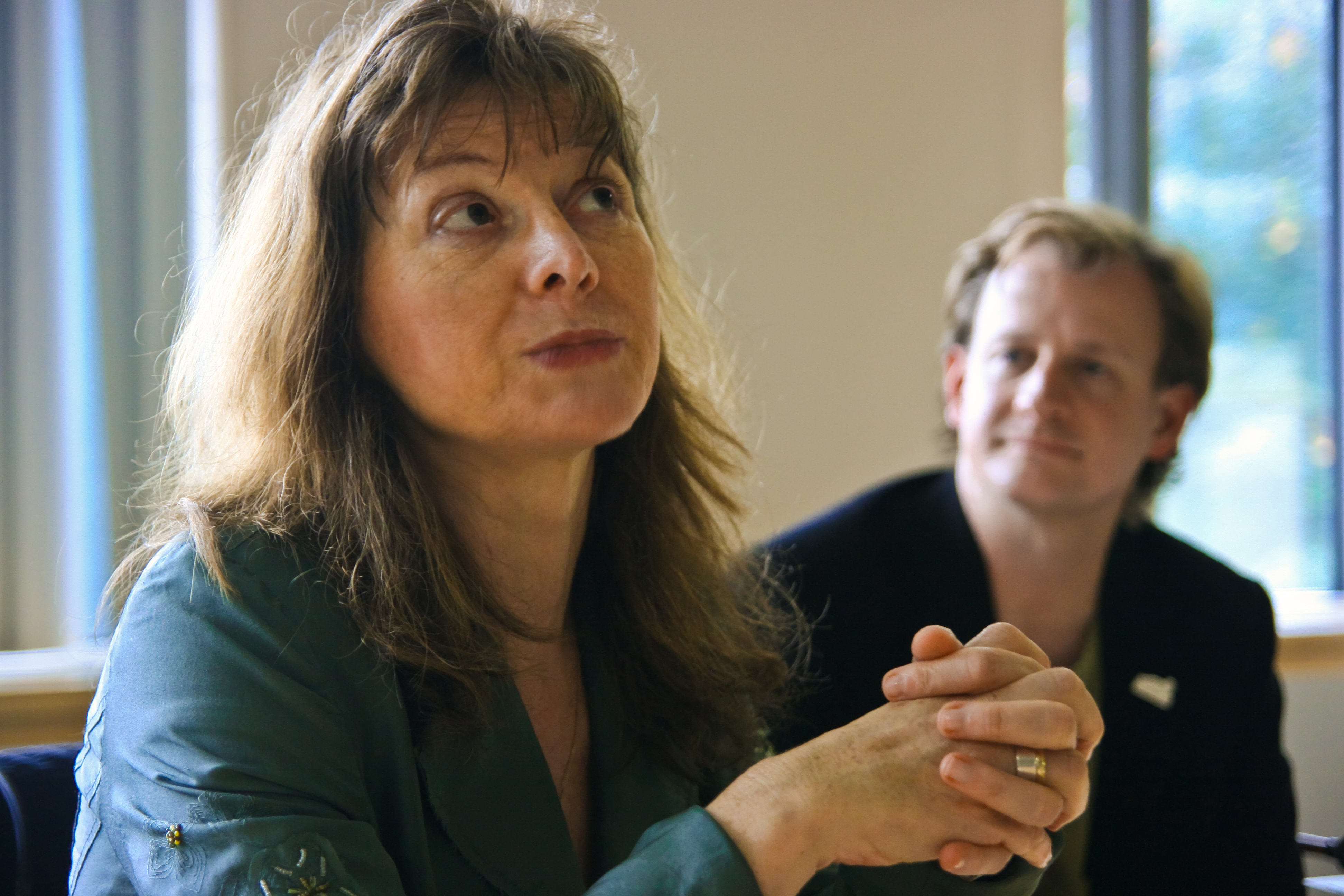 Hiltrud Breyer, Member of the European Parliament, with Carl Schlyter on the background.